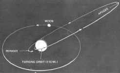 Spam Trajectory Selected for Rangers 1 and 2